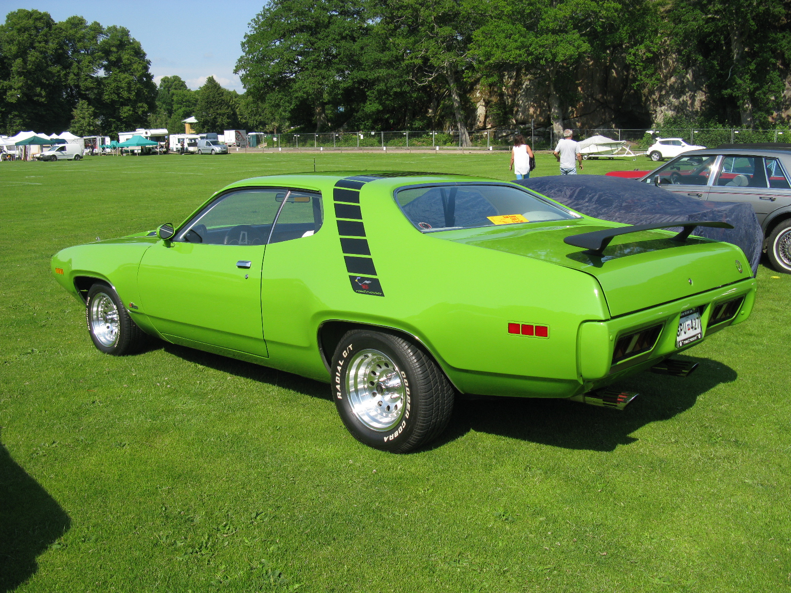 Plymouth Roadrunner 440